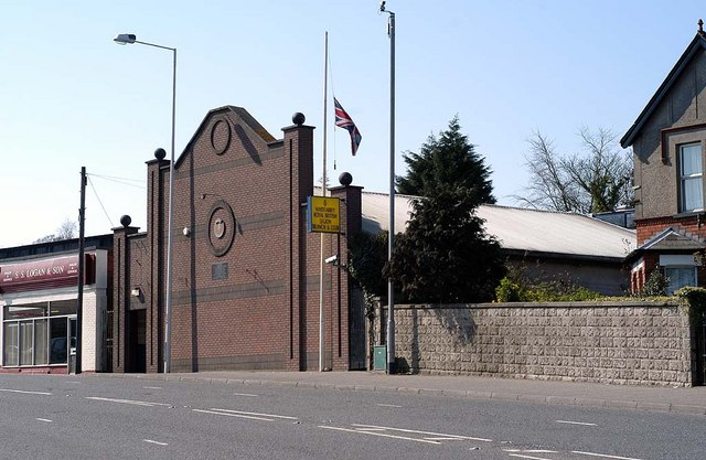 Royal British Legion Club, Whiteabbey The Royal British Legion club constructed by Henderson Construction Co. 1989/90.